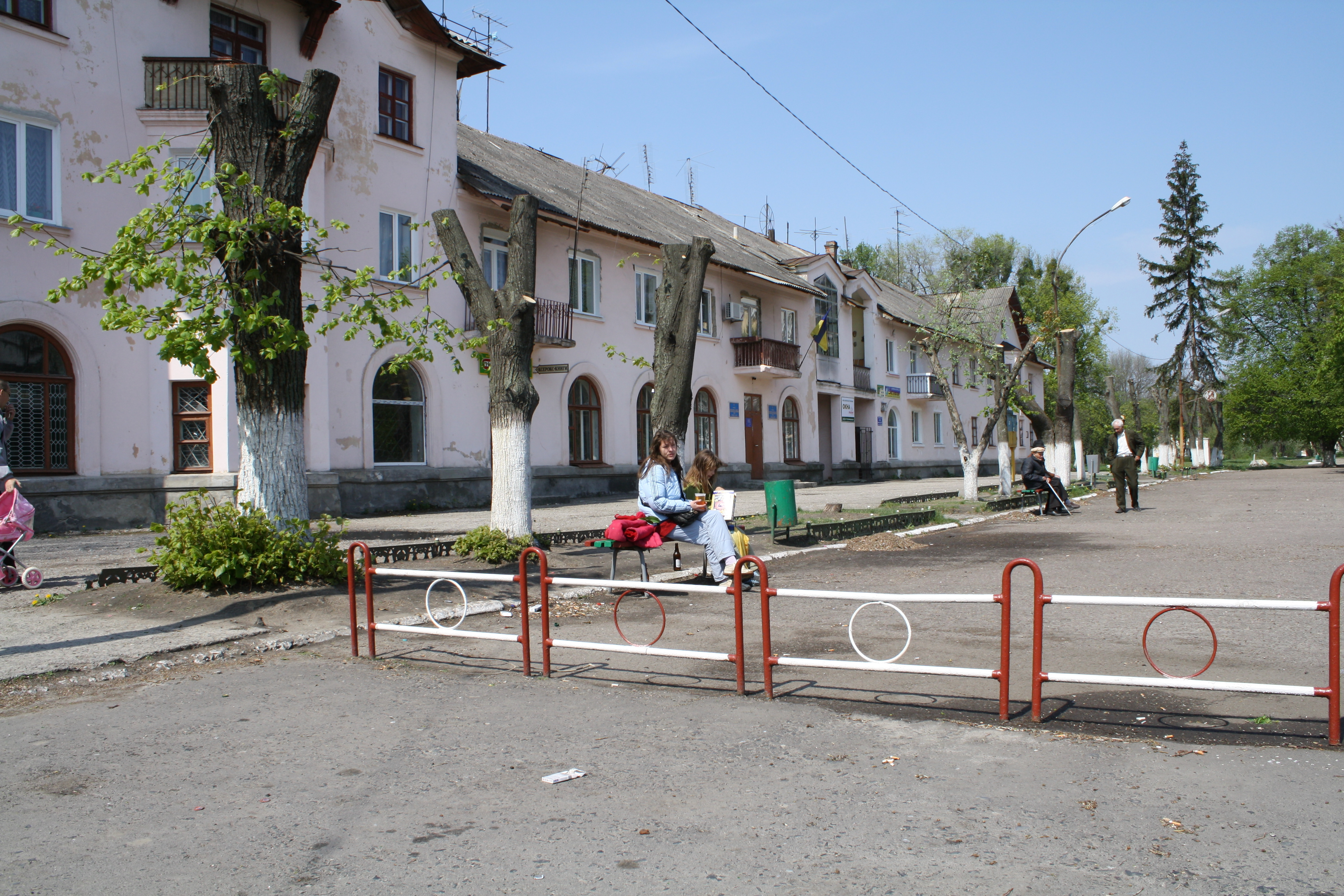 Center of the town of Eskhar, Kharkiv Oblast, Ukraine